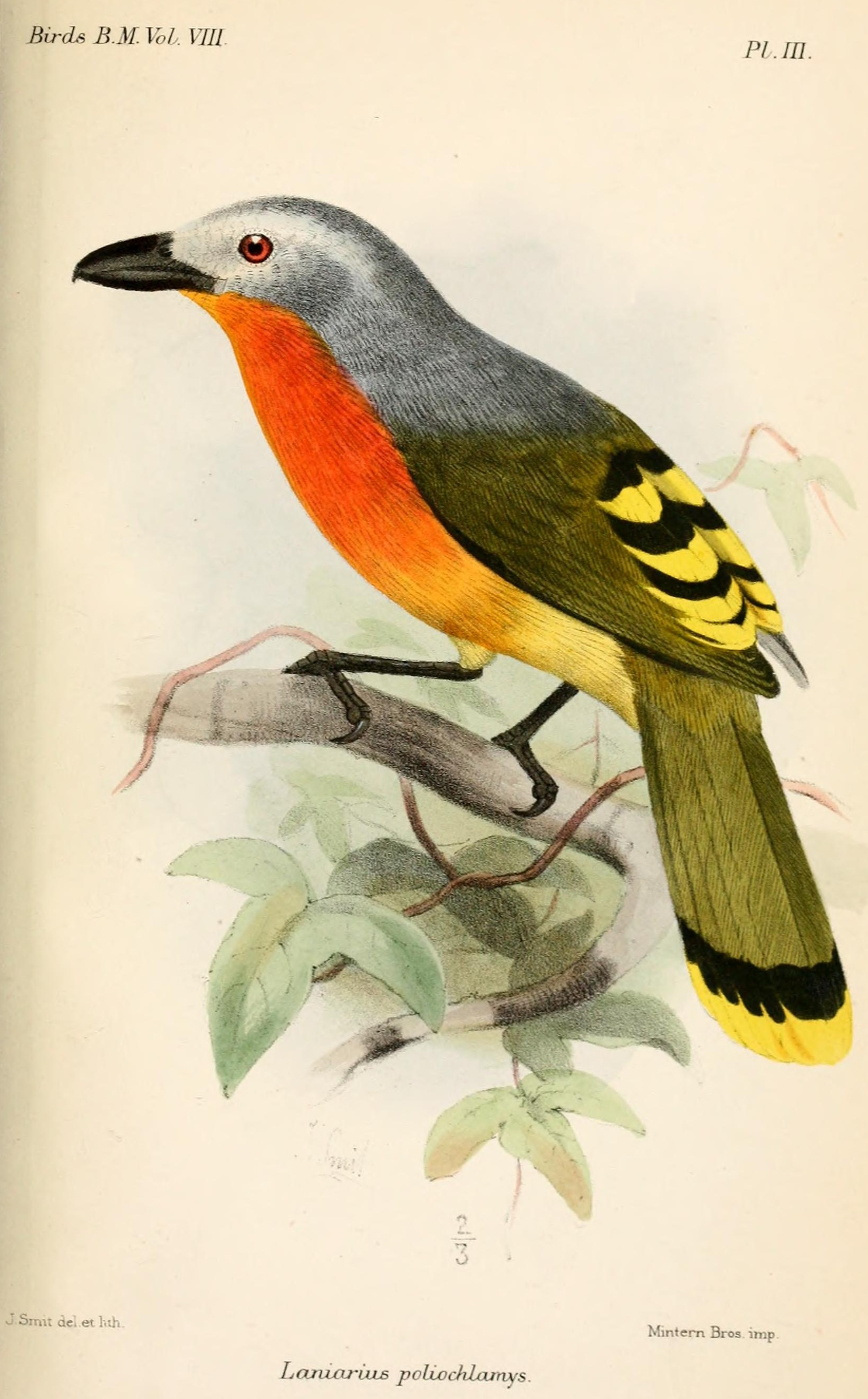 Fiery-breasted Bush-shrike